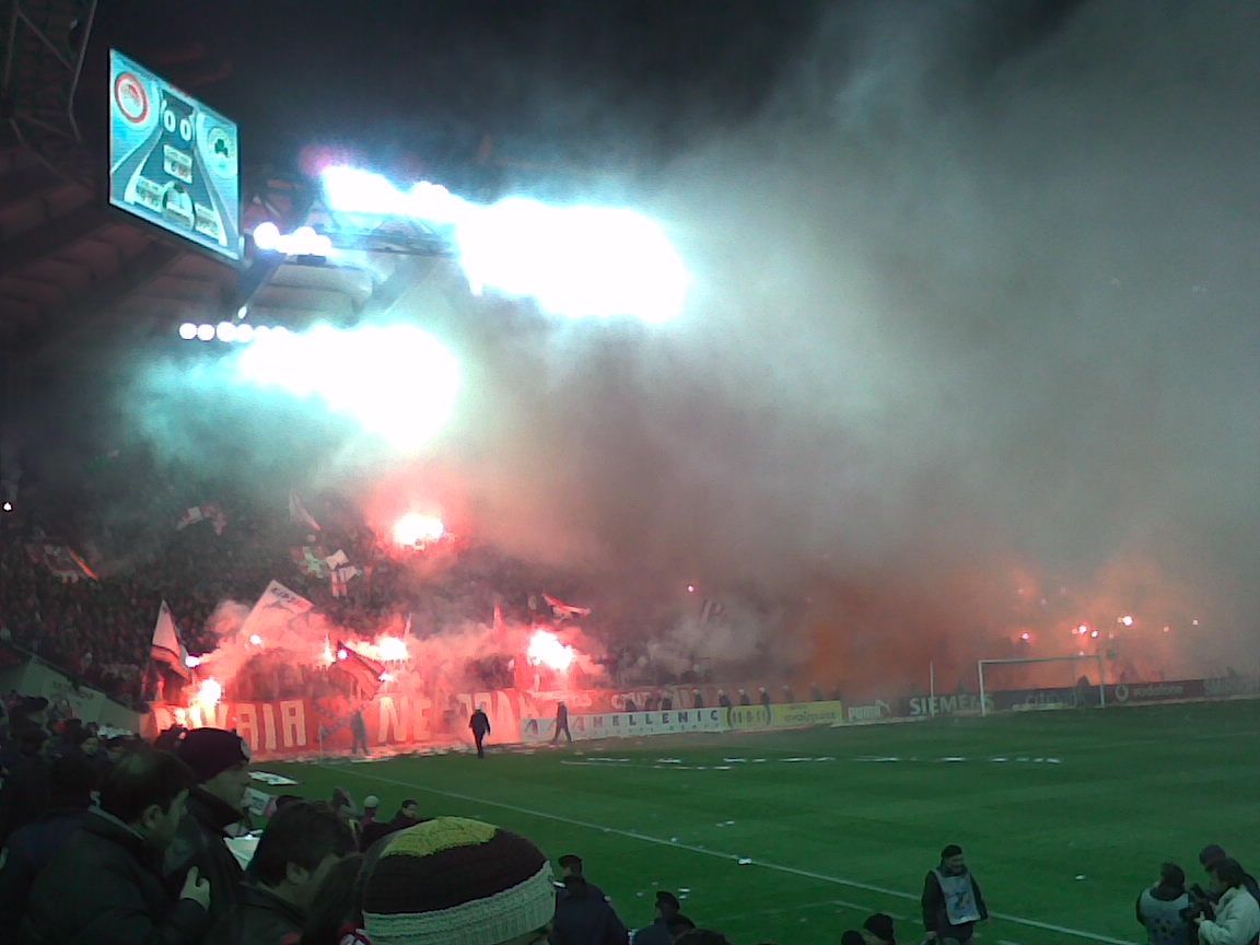 This is Gate 7 in new Karaiskaki Stadium. This photo was taken before the kick-off of the biggest derby in Greece between Olympiacos and Panathinaikos on January 15, 2006.